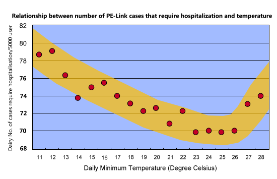 Relationship between number of PE-Link cases that require hospitalization and temperature